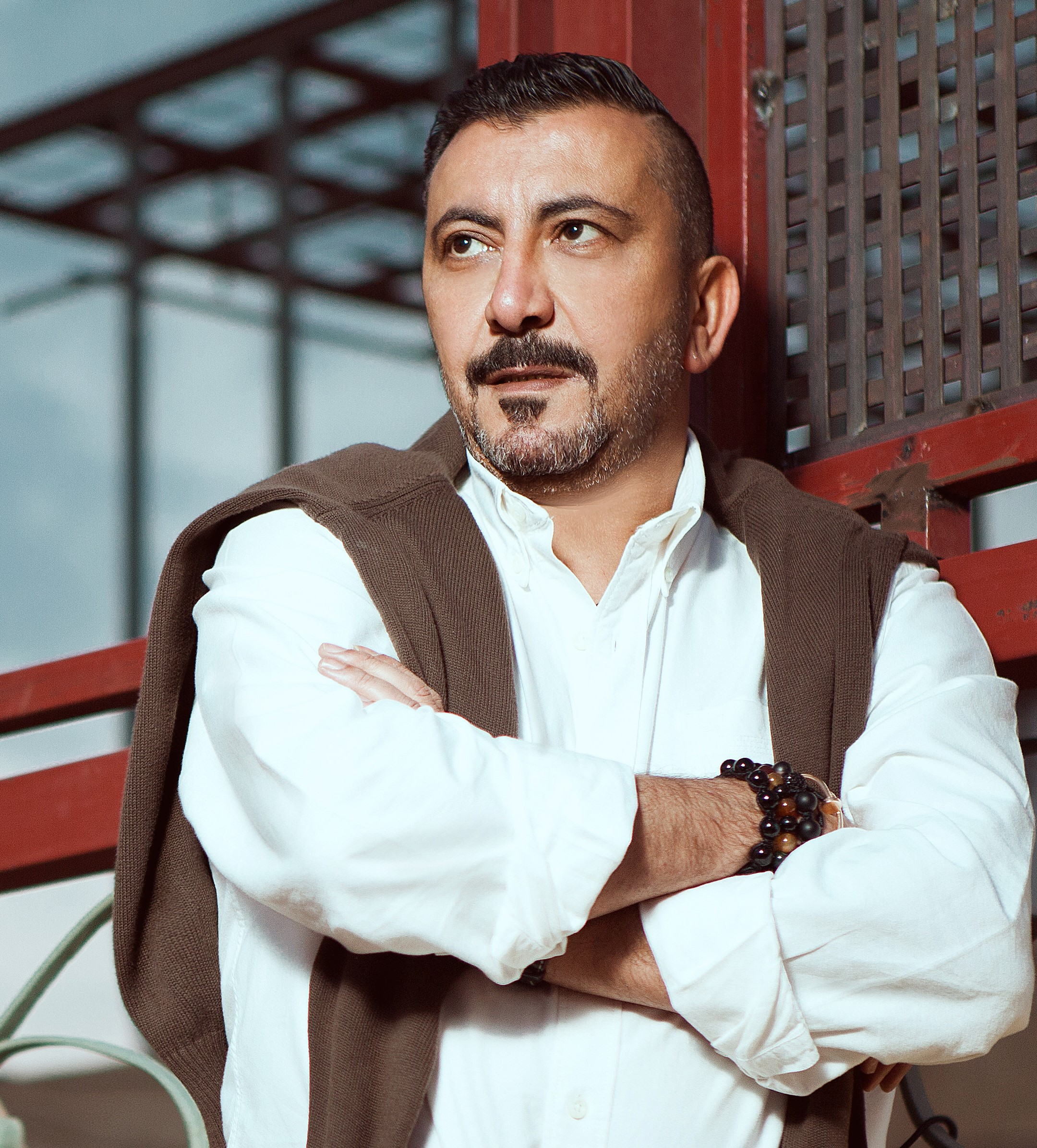 NasrMahrous